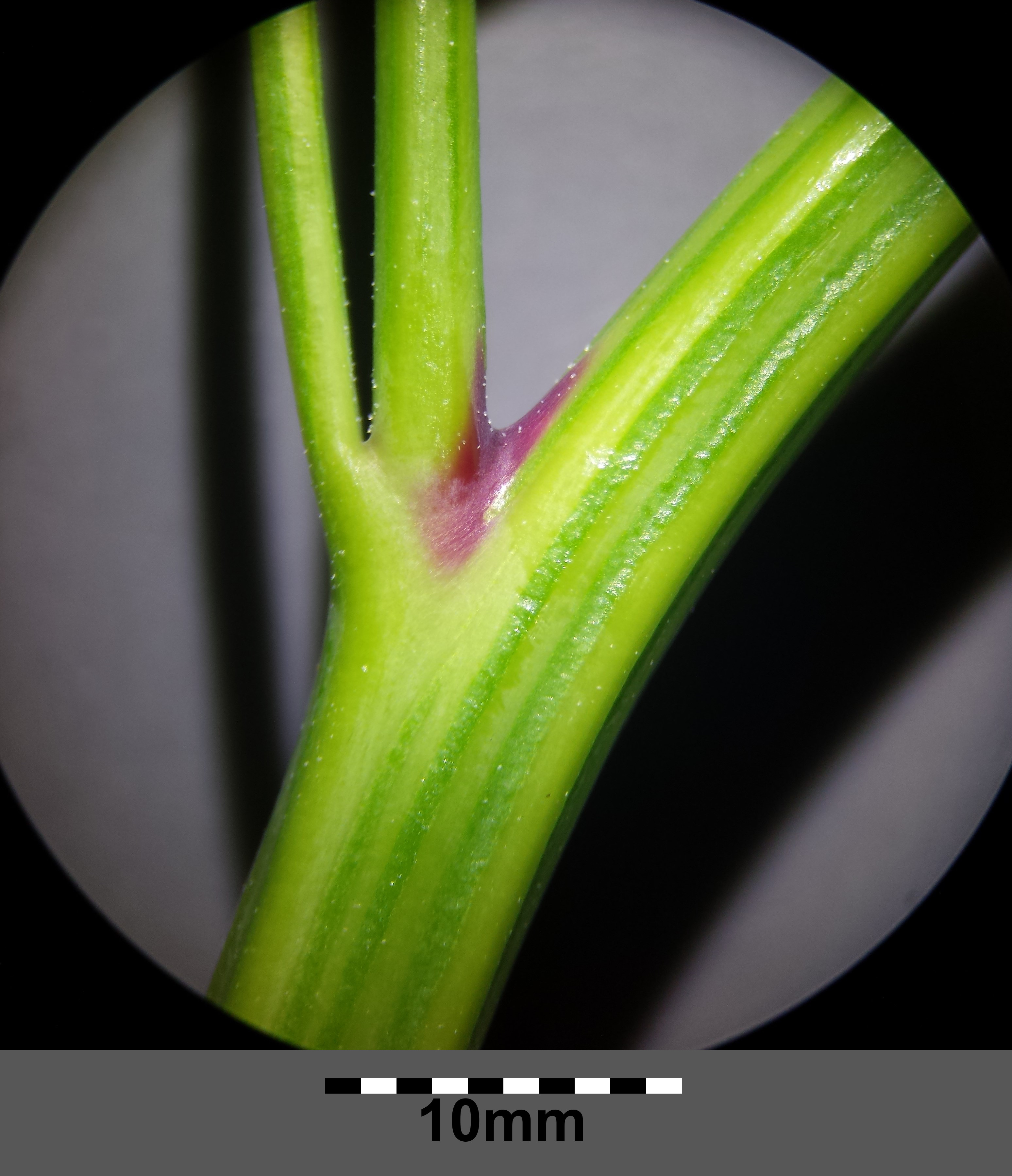 Stipe with branch and red stain Taxonym: Chenopodium ficifolium subsp. ficifolium ss Fischer et al. EfÖLS 2008 ISBN 978-3-85474-187-9 Location: Nordmanngasse, Donaufeld, Vienna-Floridsdorf - ca. 160 m a.s.l. Habitat: humid field